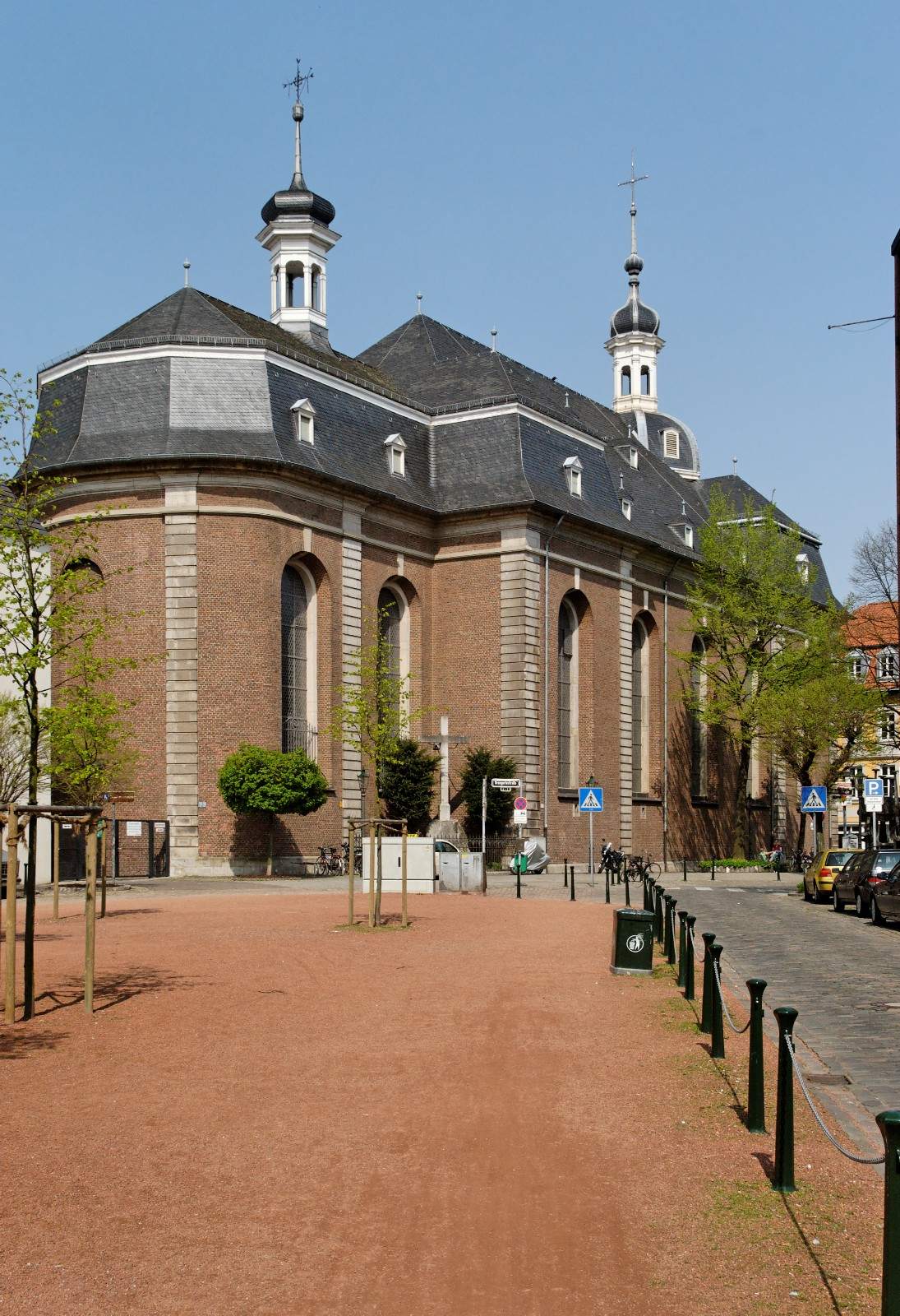 Max Church in Düsseldorf-Altstadt, Germany